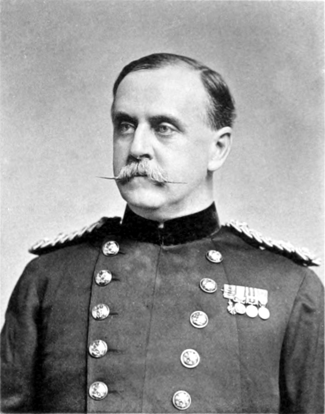 Sir Peter Scratchley KCMG.